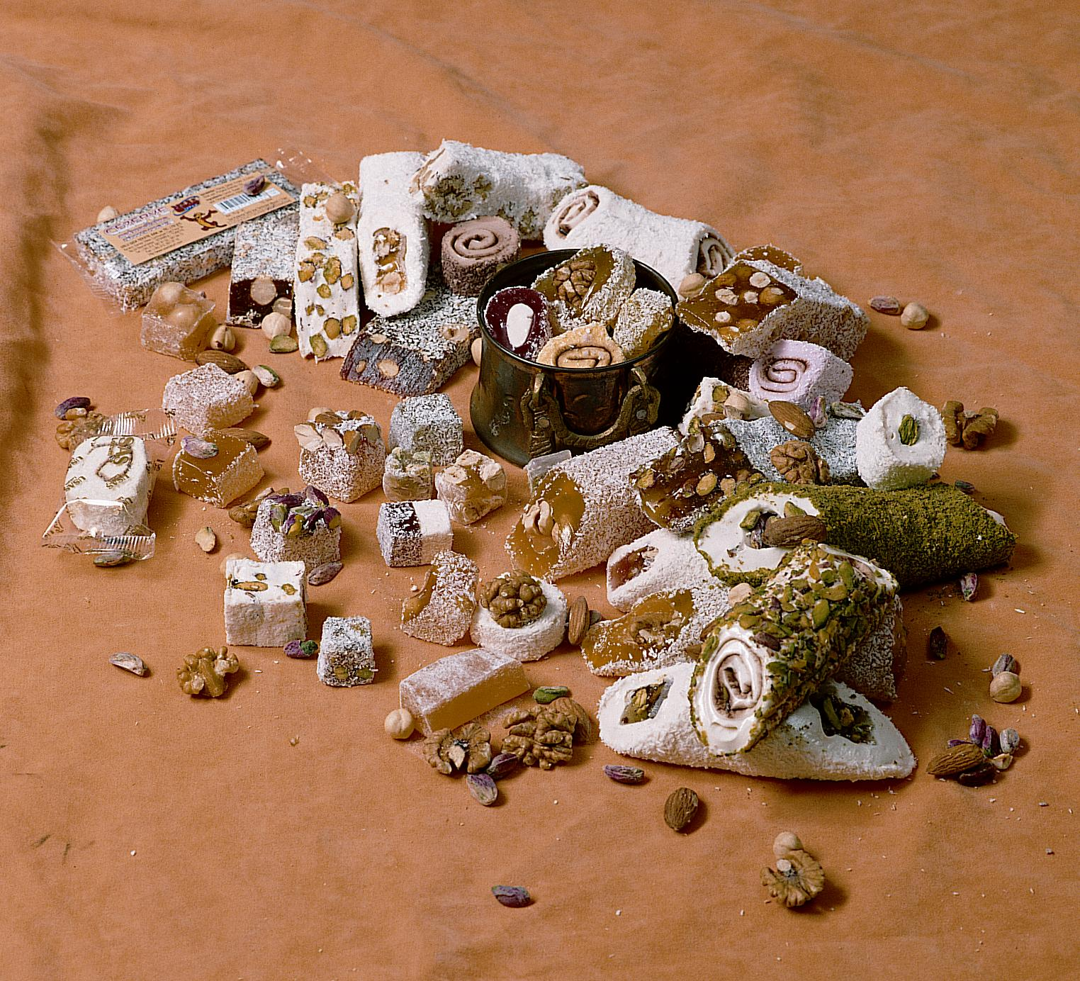 Turkish Delight